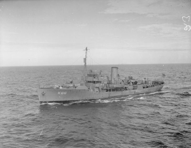 Photograph of British Flower class corvette HMS Begonia (K66) underway at sea.